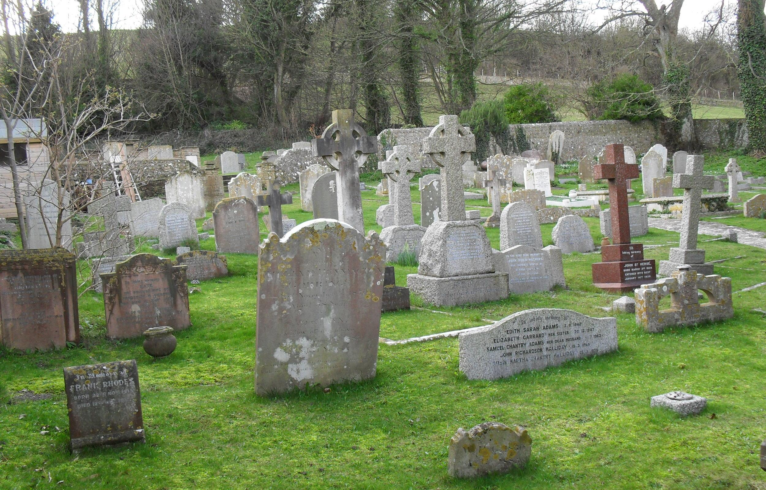 General view across the churchyard at St Wulfran's Church, Ovingdean, City of Brighton and Hove, England.